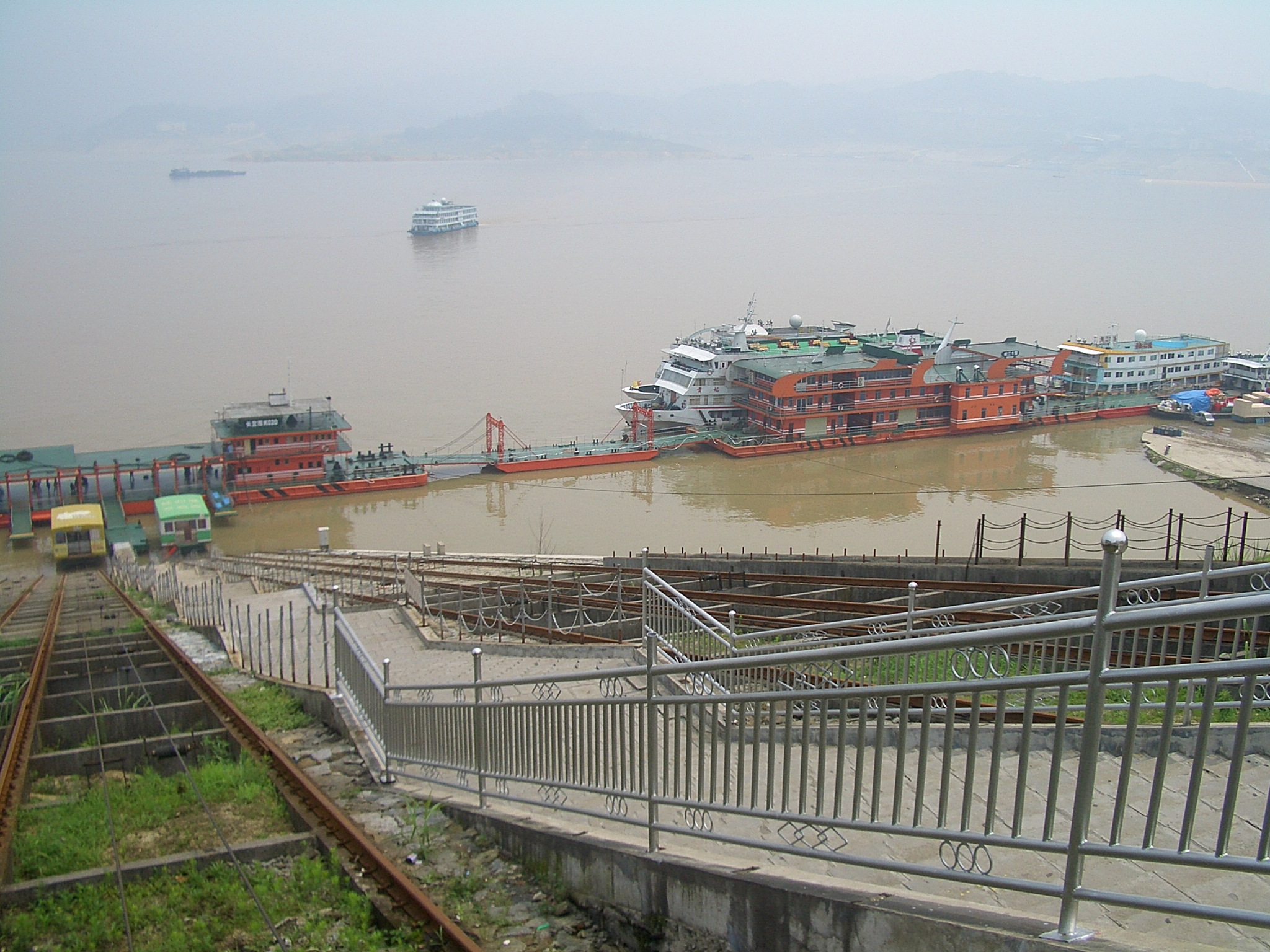 Funicular gets you to your boat at Maoping Town dock (Zigui County, Hubei) for Y2. The opposite side of the Yangtze River (or, actually, the Three Gorges Reservoir), hardly seen in the usual fog, is in Taipingxi Town, Yiling District.